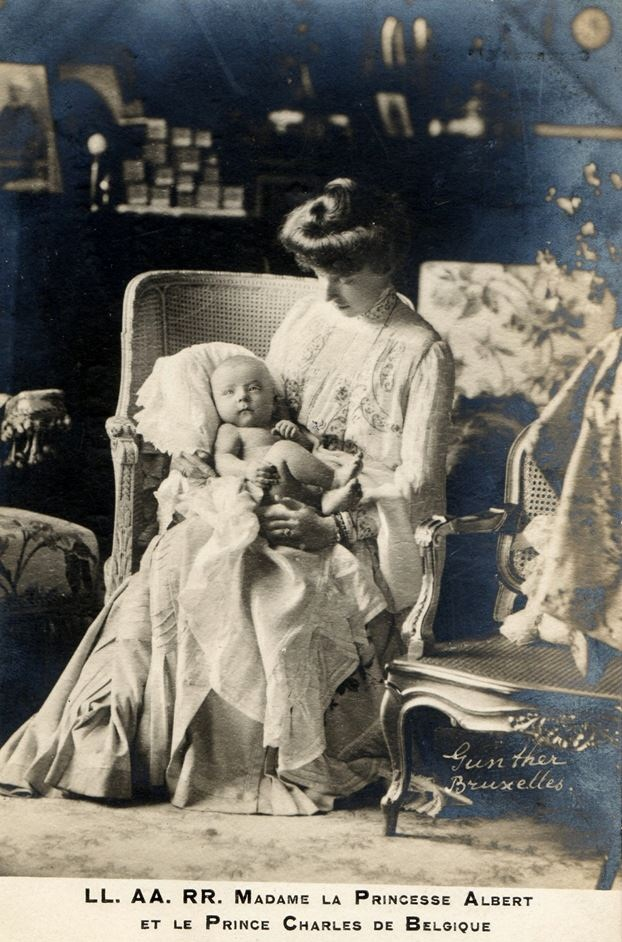 Elisabeth, Duchess of Brabant with her son Charles (later Prince Regent of Belgium)